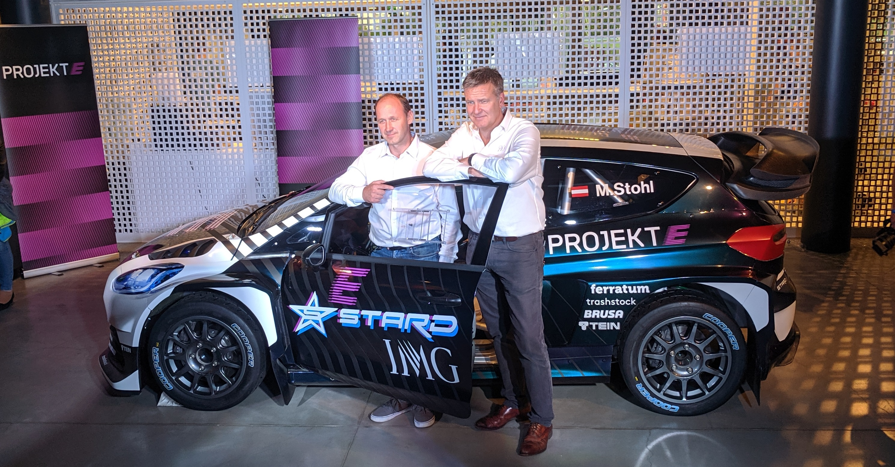 Manfred Stohl and Paul Bellamy of IMG present a new electric rallycross car in Riga, Latvia